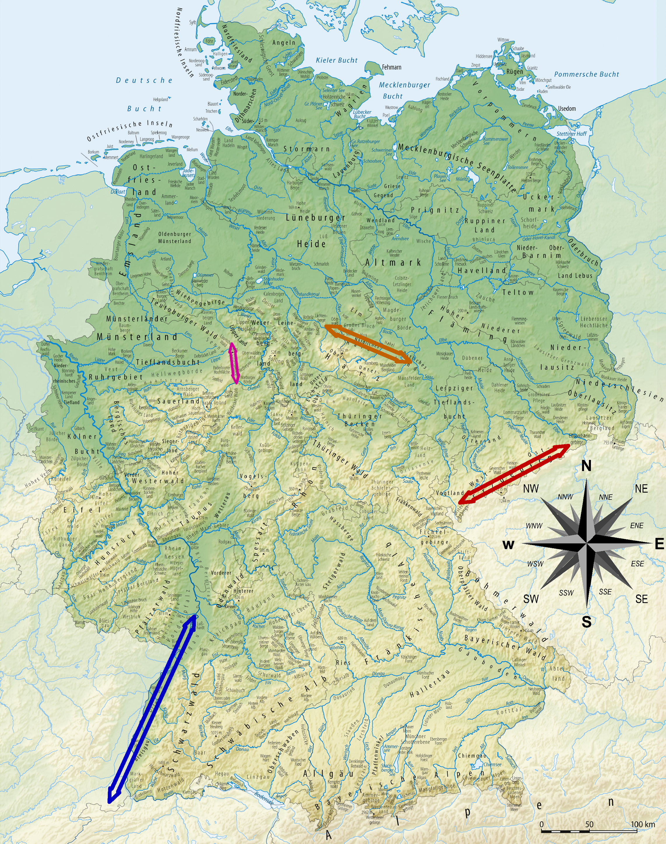 The four main directions of strike in the regional geology of Central Europe, exemplified by their “type regions”: red - variscan[1] (Ore Mts.); orange - hercynian[1] (Hartz Mts.); blue - rhenish (Upper Rhine Graben); violet - eggian (Egge Ridge). ↑ a b Note: While “variscan” and “hercynian” essentially mean the same with regard to orogeny they have an opposite meaning with regard to the direction of strike.